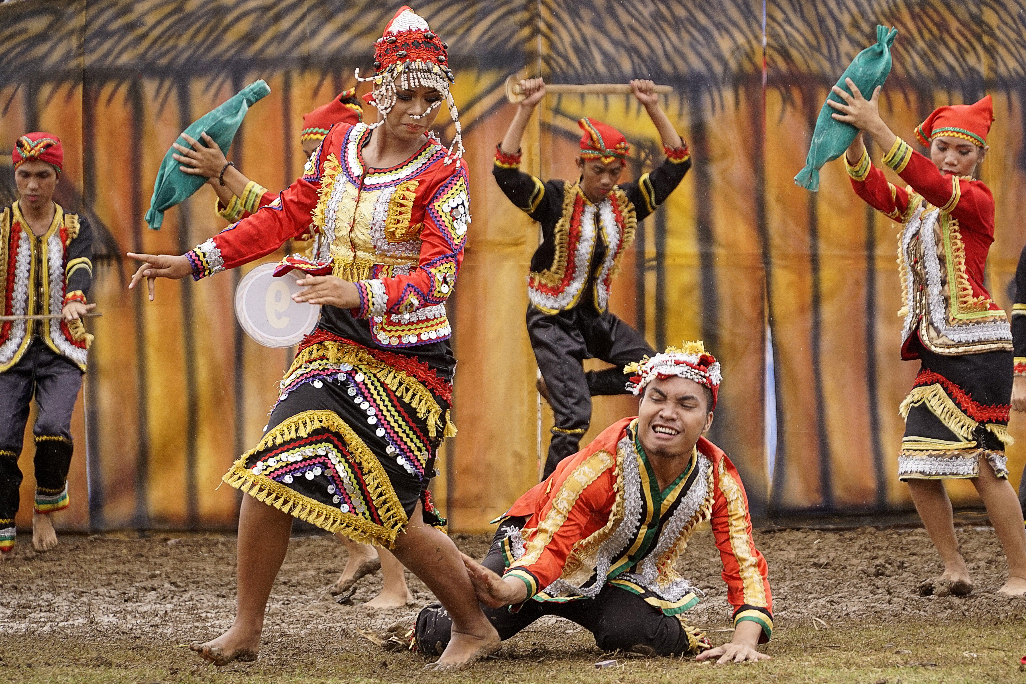 A gathering of the Subanen indigenous people. This photo has been taken in the country: Philippines